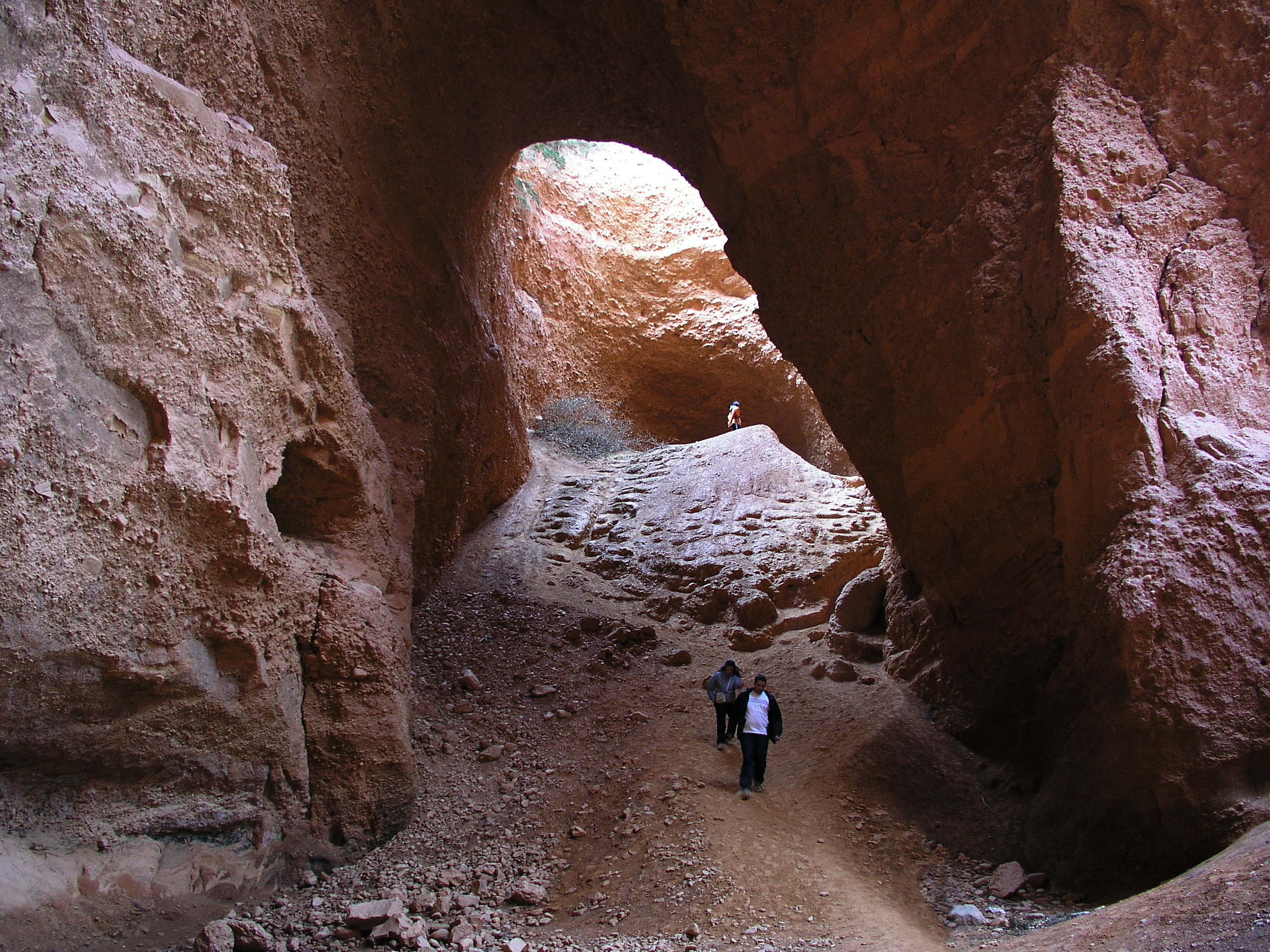 Las Médulas, Province of León, Spain. Roman gold mine. UNESCO World heritage site.